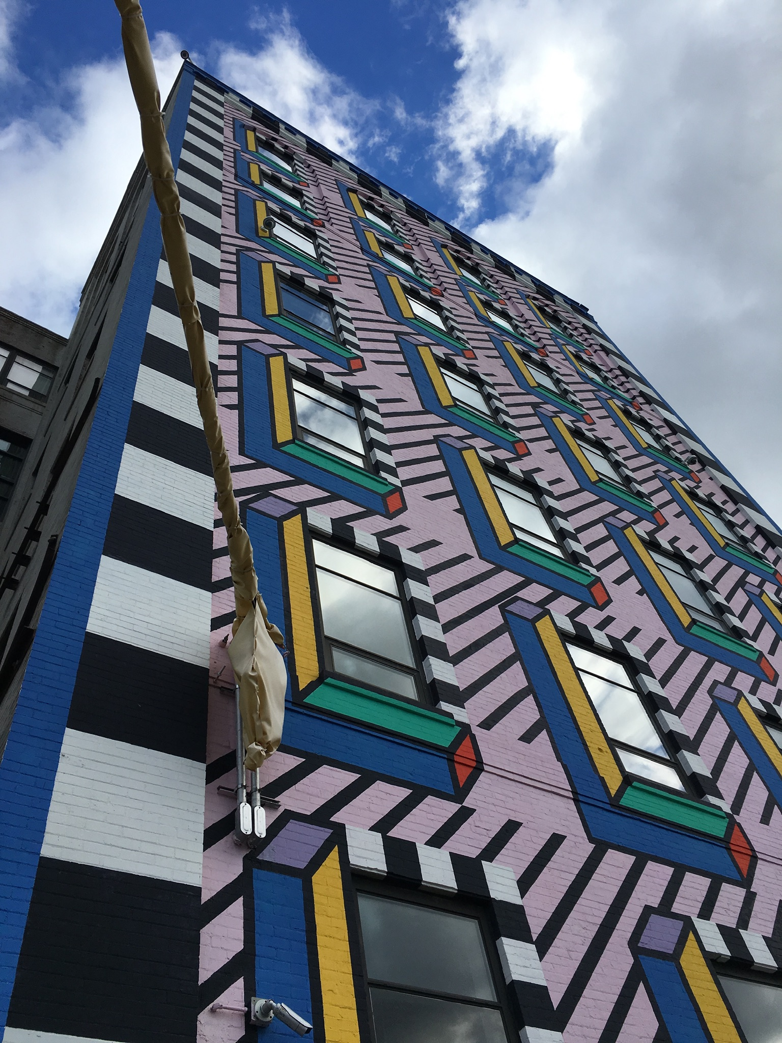 mural by Camille Walala at Industry City, taken on Saturday, October 13, 2018Site: Industry City